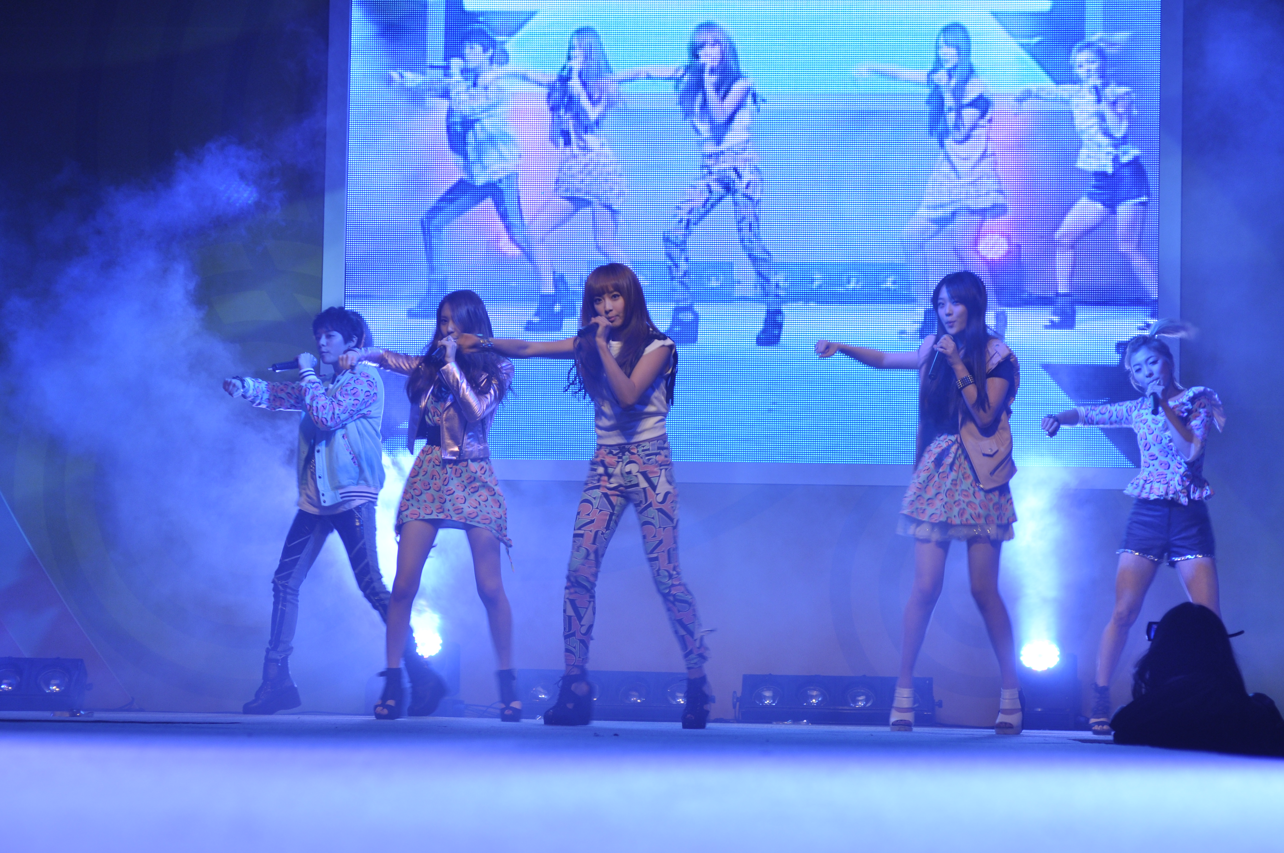 A high-energy performance by popular K-pop group f(x) to celebrate the 40th Anniversary KOCIS